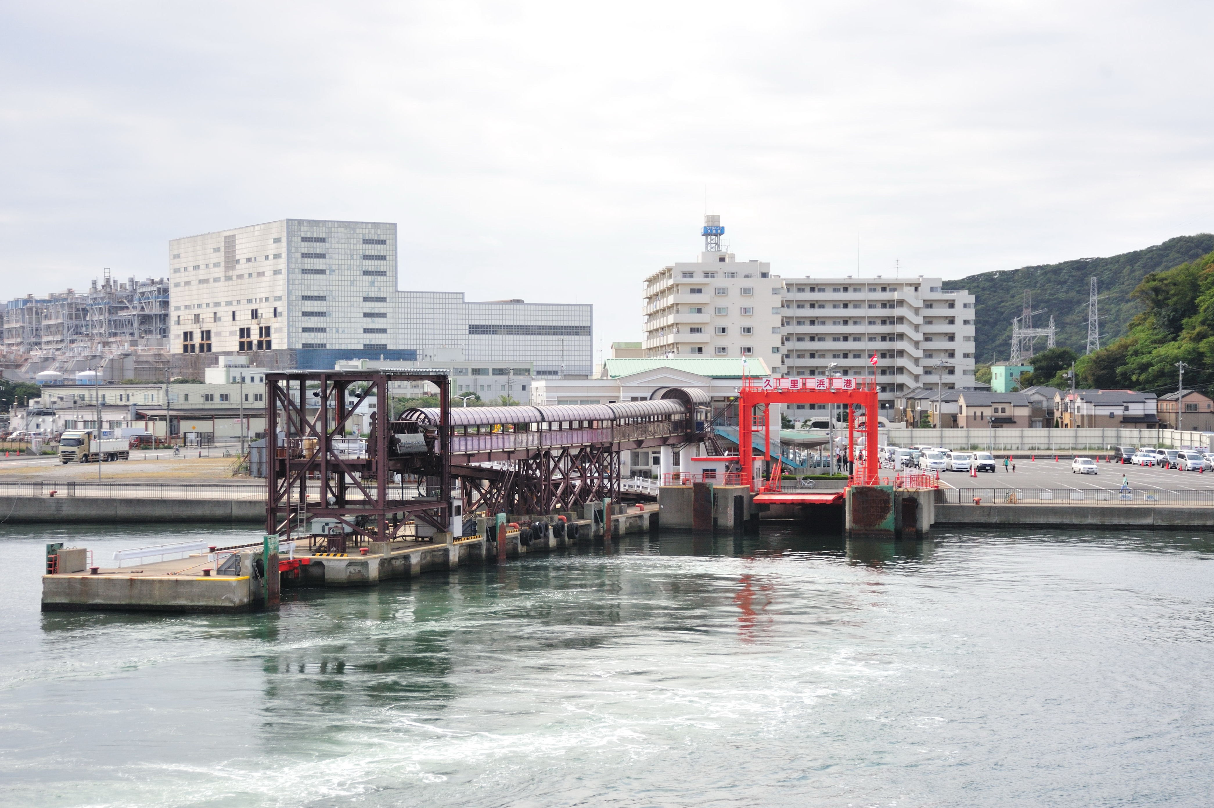 kurihama port, yokosuka, japan